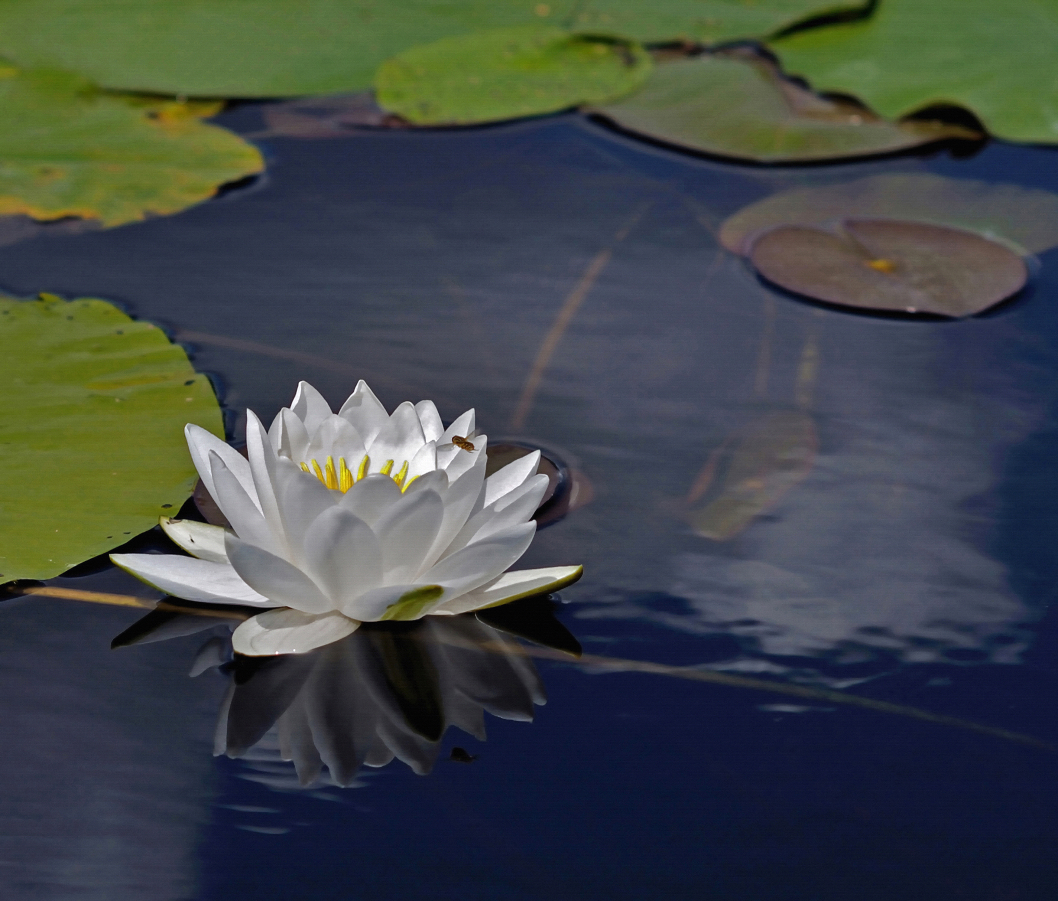 Nymphaea alba in backwaters of the Dnieper River near Kiev. Ukraine